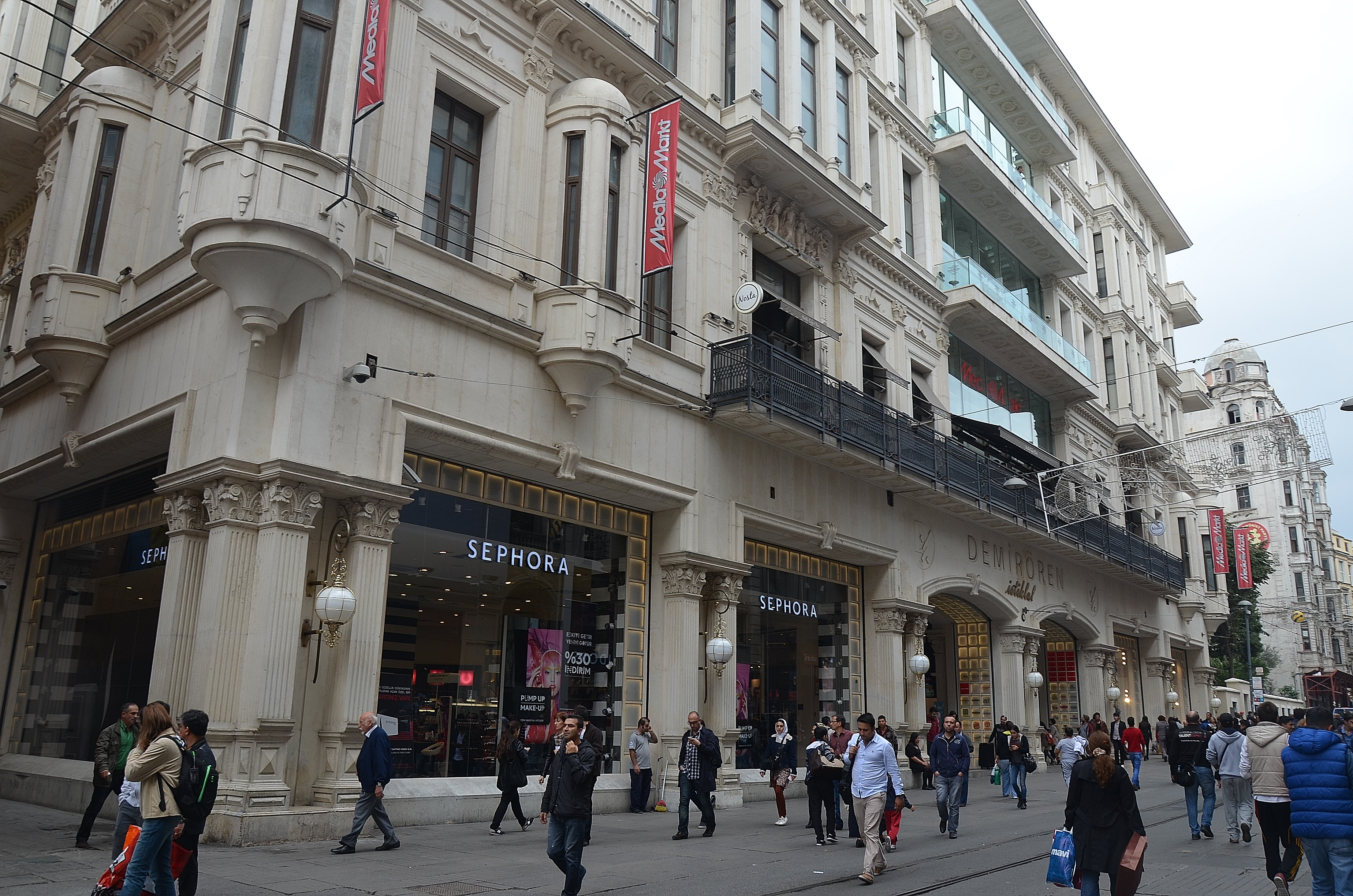 Demirören Shopping Mall in Istiklal Avenue, Beyoğlu İstanbul